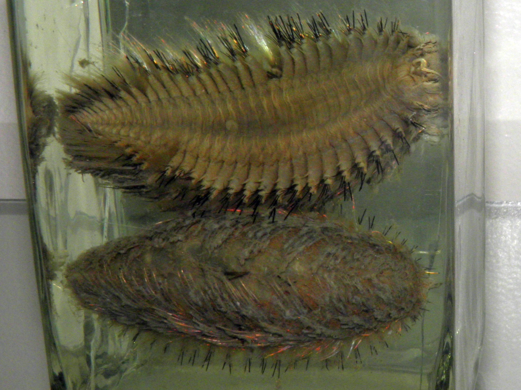 Aphrodita australis